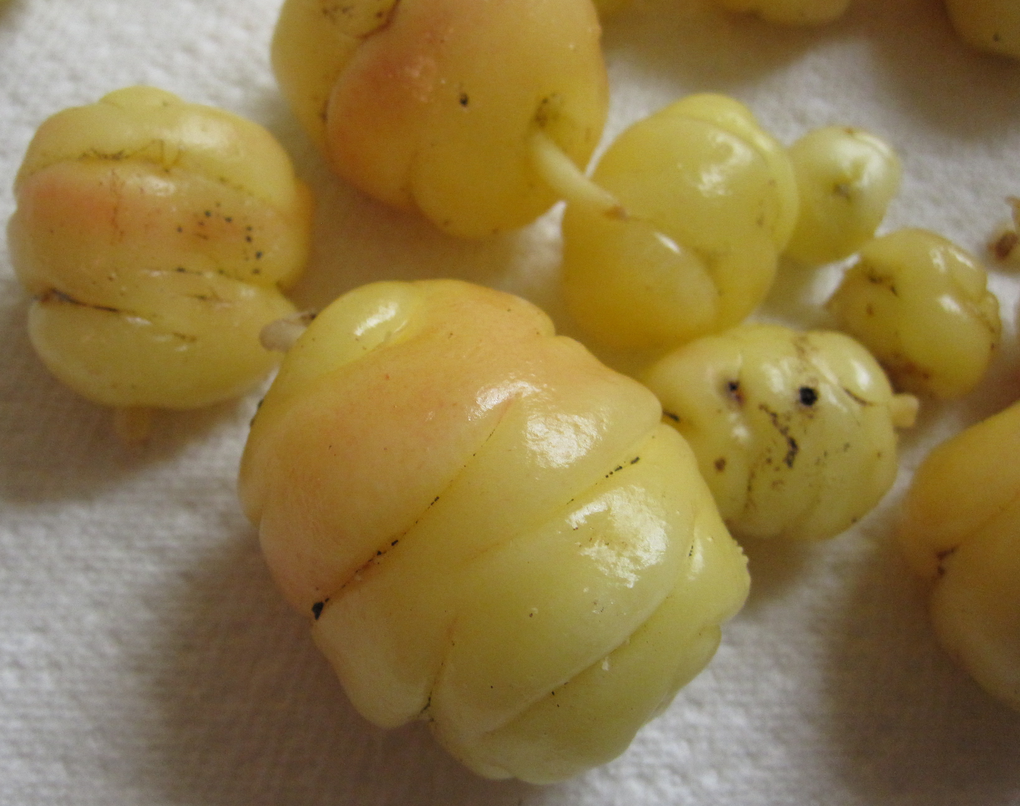 Yellow-orange color variety of oca